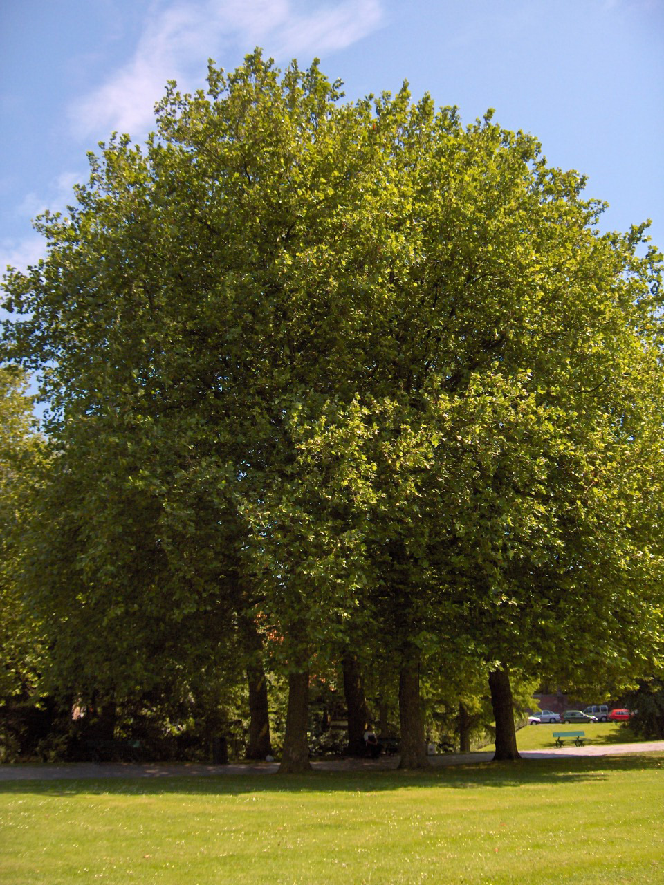 Hybrid Platanus x hispanica Family Platanceae